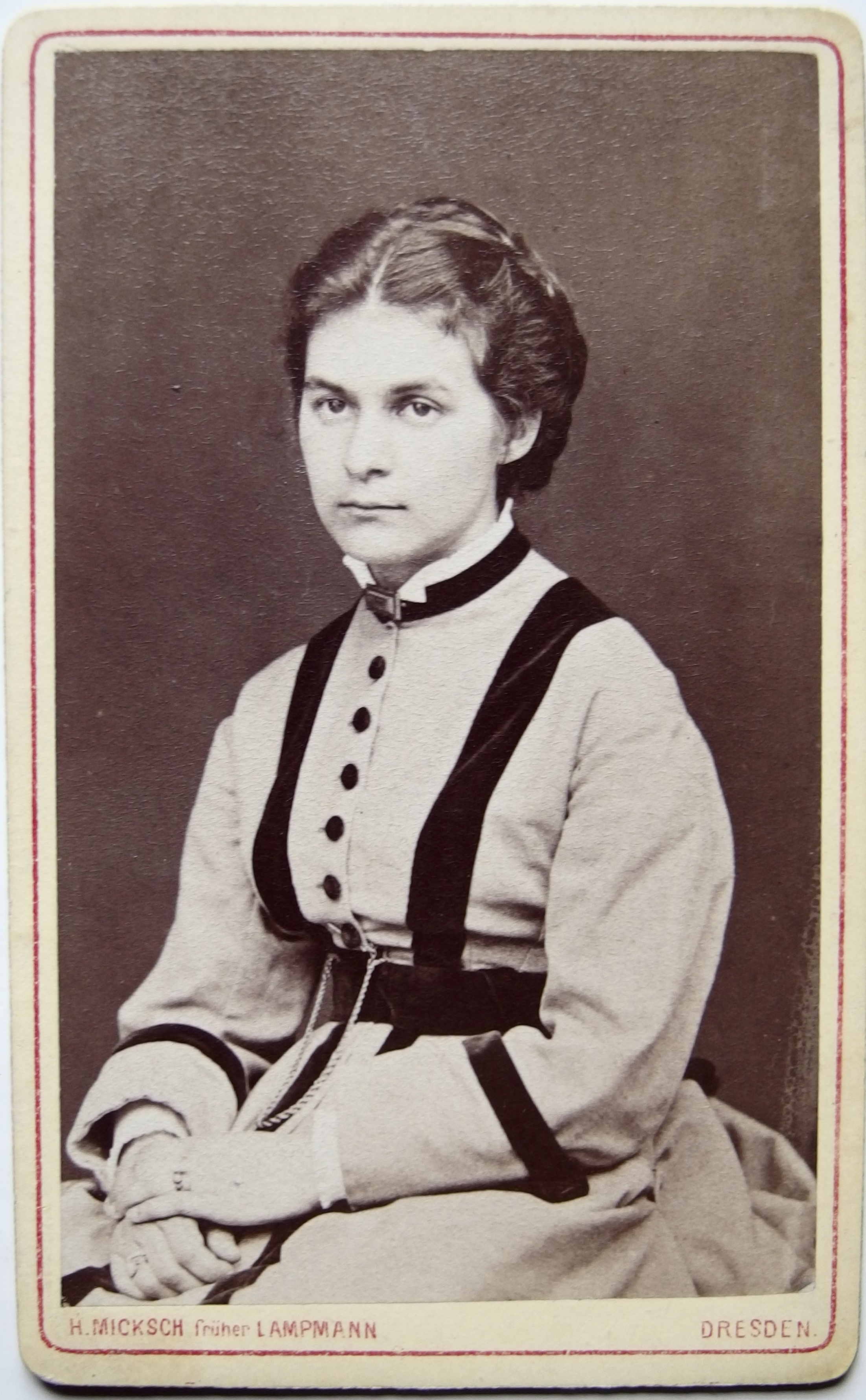 Else Sohn-Rethel, wife of Karl Rudolf Sohn, daughter of Alfred Rethel